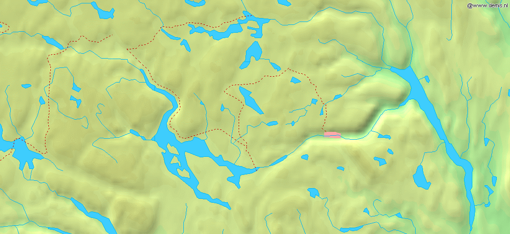 Map of Rjukan and lakes Møsvatnet, Tinnsjå, and Mårvatn. Bounding box West 7.5°, South 59.72°, East 9.15°, North 60.1°. Center at 59°54′36″N 8°19′30″E / 59.91000°N 8.32500°E.